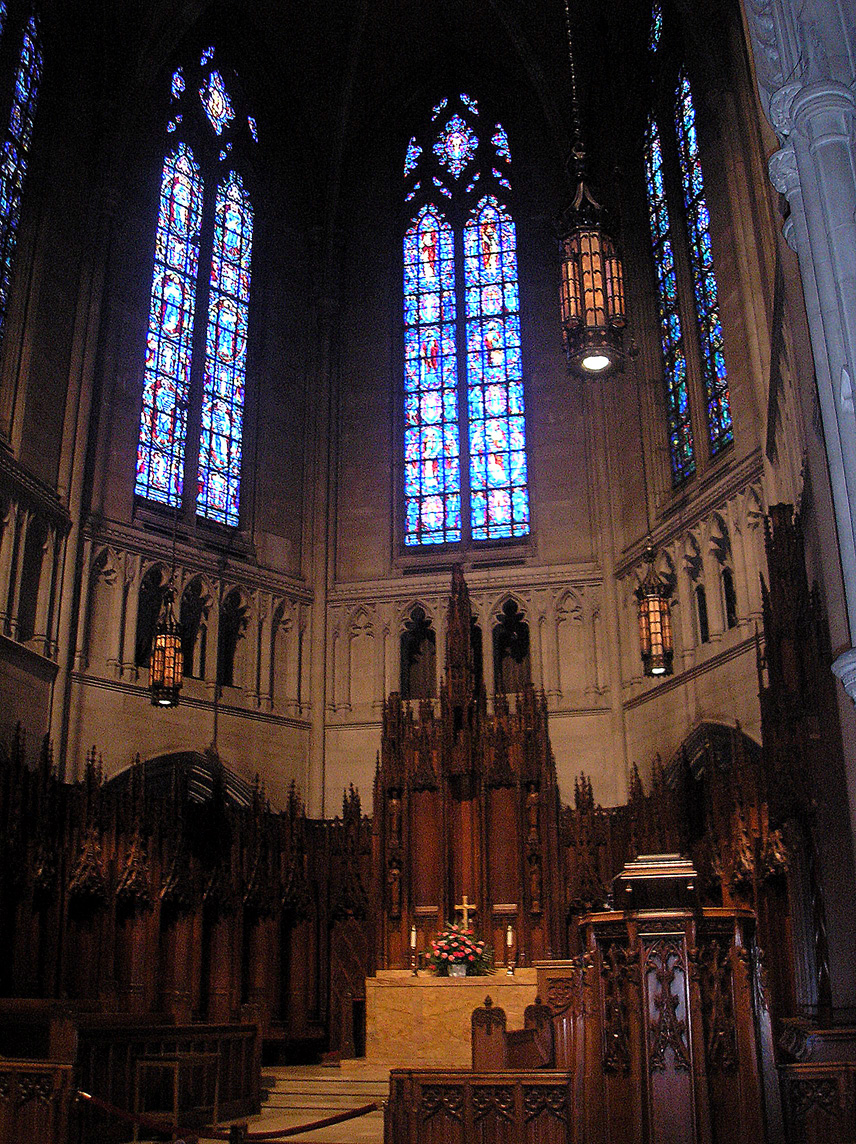 Chancel windows of Heinz Memorial Chapel on the campus of the University of Pittsburgh. photo by Laurie Stepanek/Mike White